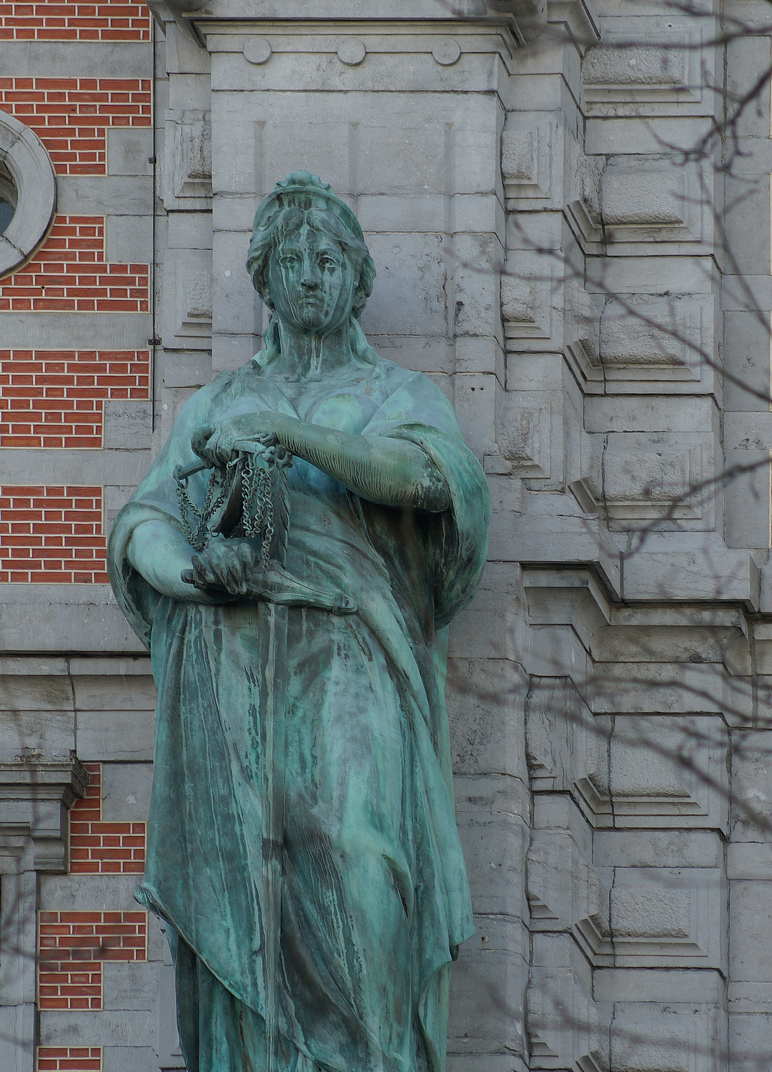 Statue 'Prudence' by Frans Deckers (anno 1886) at the entrance of the Justice Palace 'Britselei' in Antwerp.